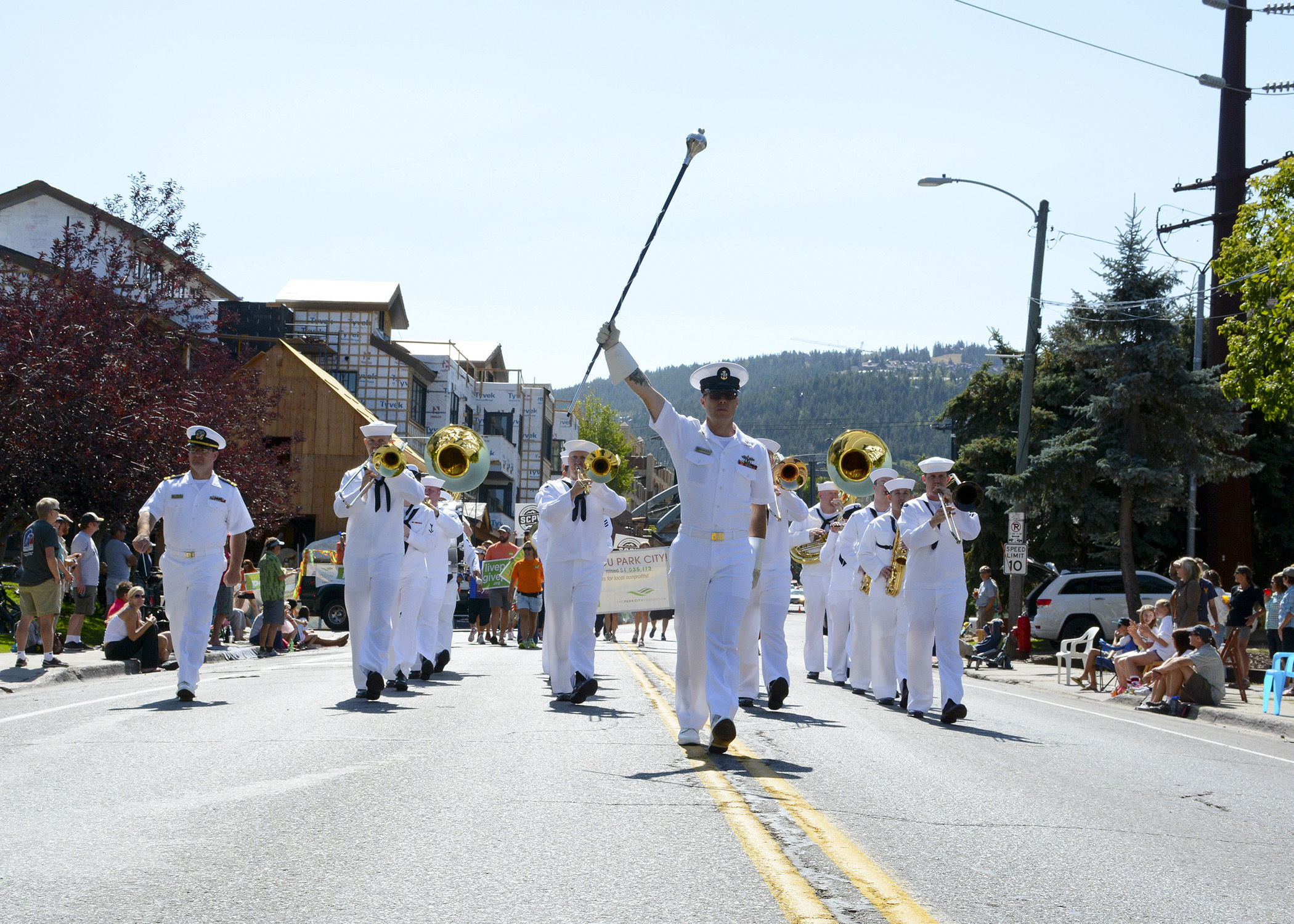 150907-N-XP344-178 PARK CITY, Utah (Sept. 7, 2015) Senior Chief Musician Nathan Bissell leads Navy Band Northwest down historic Main Street during Park City's 118th annual Miner's Day Celebration during Salt Lake City Navy Week. The Navy Week program is designed to raise awareness about the Navy in areas that traditionally do not have a naval presence and include community relation projects, speaking engagements, and media interviews with flag hosts and area Sailors. (U.S. Navy photo by Mass Communication Specialist 2nd Class Victoria Kinney/Released) Unit: Navy Media Content Services DVIDS Tags: heritage; deployed; fast; united states; tradition; america; freedom; commerce; navy; Sailors; military; U.S. Navy; liberty; war fighters; CHINFO; protect; worldwide; sea lanes; on watch; war fighting; flexible; preserve peace; deter aggression; defend freedom; operate forward; be ready; war fighting first; NMCS; navy media content service; DVIDS Bulk Import